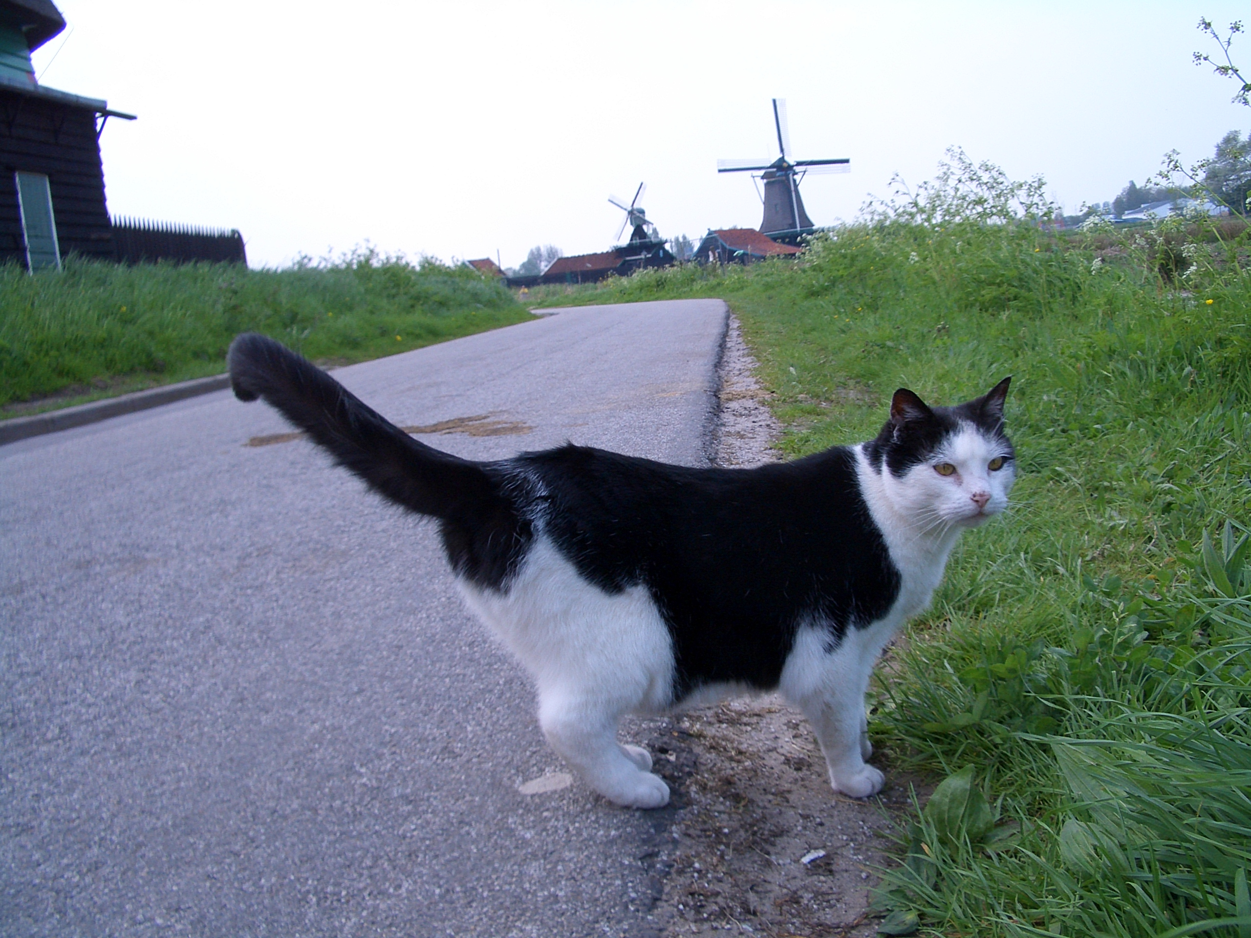 A Dutch cat crossing the road in the windmill museum Zaanse Schans